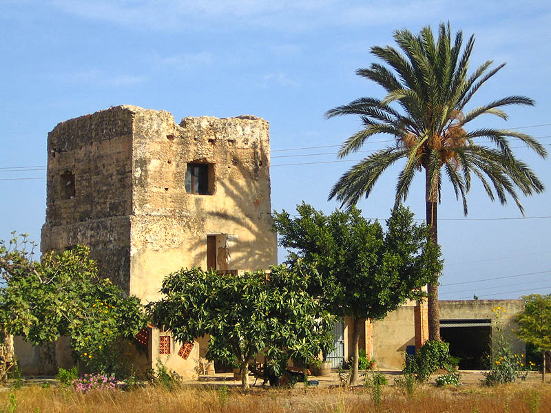 Torre de la Cremadella, a medieval tower in El Verger, Valencia, Spain.